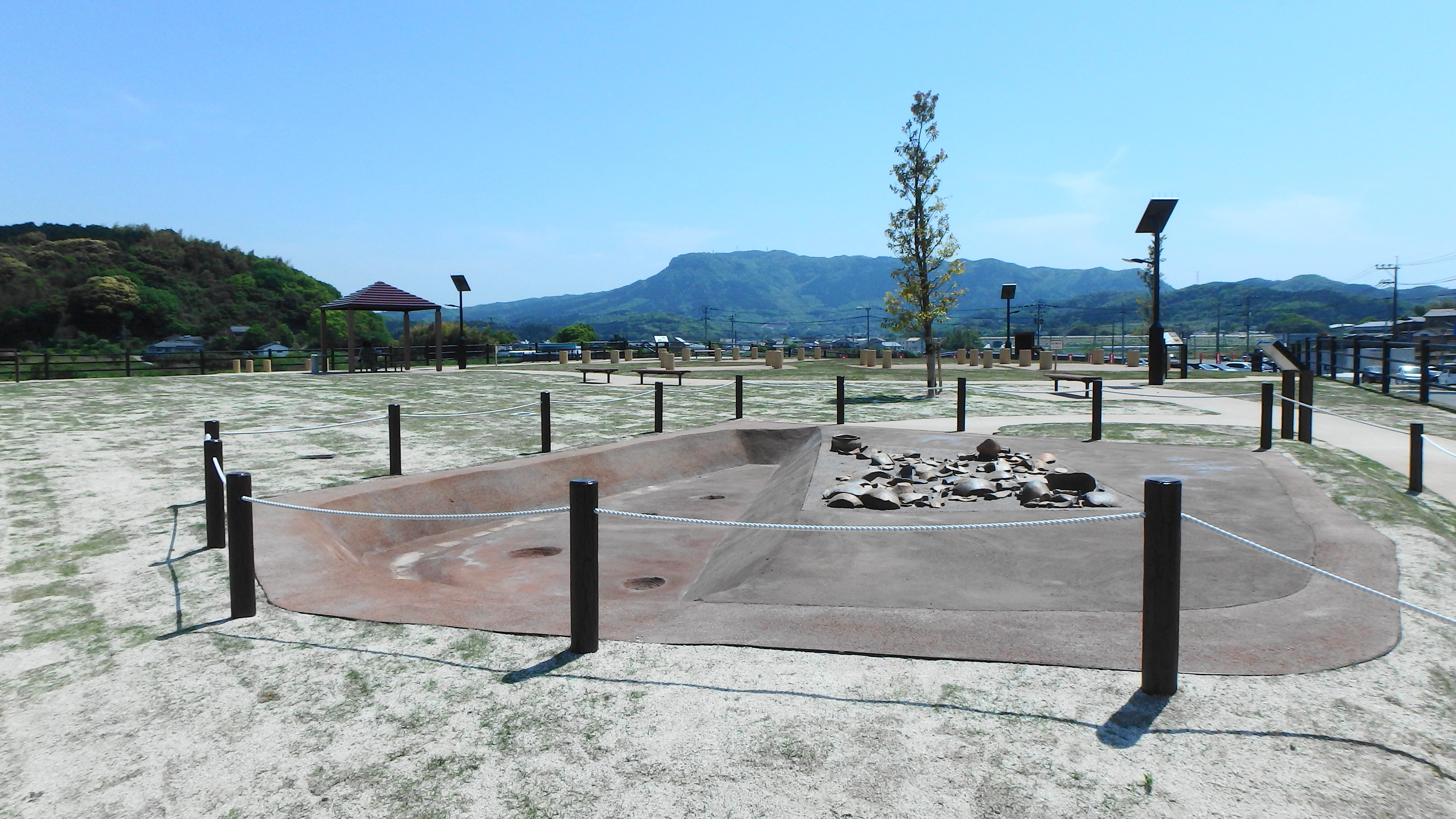 Remains of Hōgaki,Oita prefecture,Japan